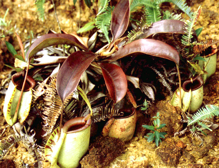 Description: Natural nepenthes hybrid N x hookeriana Photo taken: 1997 in Malaysia Photo by: David H Wong